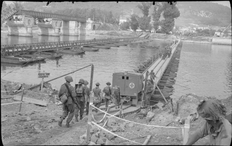 The British Army in North-west Europe 1944-45 An ambulance and infantry crossing the River Seine on a Bailey bridge at Vernon, 27 August 1944.